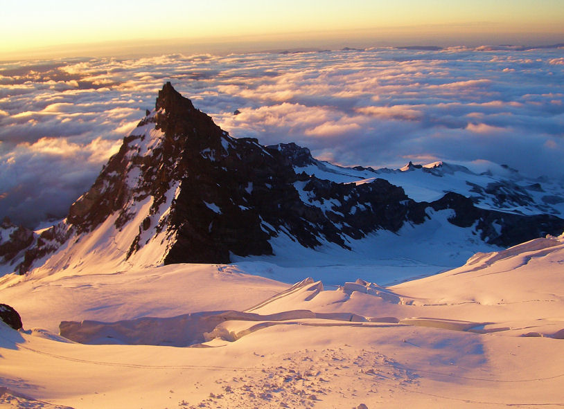 View from Ingraham Glacier looking down at Little Tahoma Peak on the morning of our perfect weather ascent up Mount Rainier.